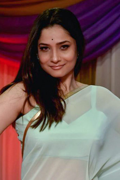 Actress Ankita Lokhande during a programme at Animedh NGO, in Mumbai on March 27, 2018